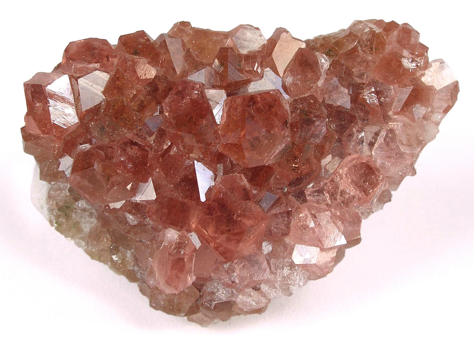 Grossular Locality: Jeffrey mine (Jeffrey quarry; Johns-Manville mine), Asbestos, Les Sources RCM, Estrie, Québec, Canada (Locality at ) Size: small cabinet, 5.6 x 3.8 x 1.7 cm Grossular Garnet (rare pink color) PINK garnet is extremely uncommon and pink grossulars, from the Jeffrey Mine, have been found in only a very few small pockets over many decades of mining there (and the quarry is now defunct, so there will ot be more). They have been priced like gold from the miners, with even small reference samples with 1-3 mm bashed crystals, selling for several hundred dollars. This is a large, rich plate of the material, and is an exceptional specimen of very high quality, which I sold to a collector back in the late 1990s when these came out (and recently bought back). It has crystals to just under 1 cm, and they are absolutely gemmy-clean, and sparkling with lustre. There is only a very trivial amount of damage, to the periphery where the piece contacted others: inevitable and acceptable as these were all chopped off the walls as thin, adjacent, plates. This is the best one I have had back for sale in about a decade, and I regard it highly. Lastly, there were varying shades of pink color. This has the absolute richest color you could have gotten at the time , very intense. The price may seem expensive, and no question it is expensive, compared to other Jeffrey garnet styles and colors. But, it has been this way since they came out, and again this is, I think, one of the better ones